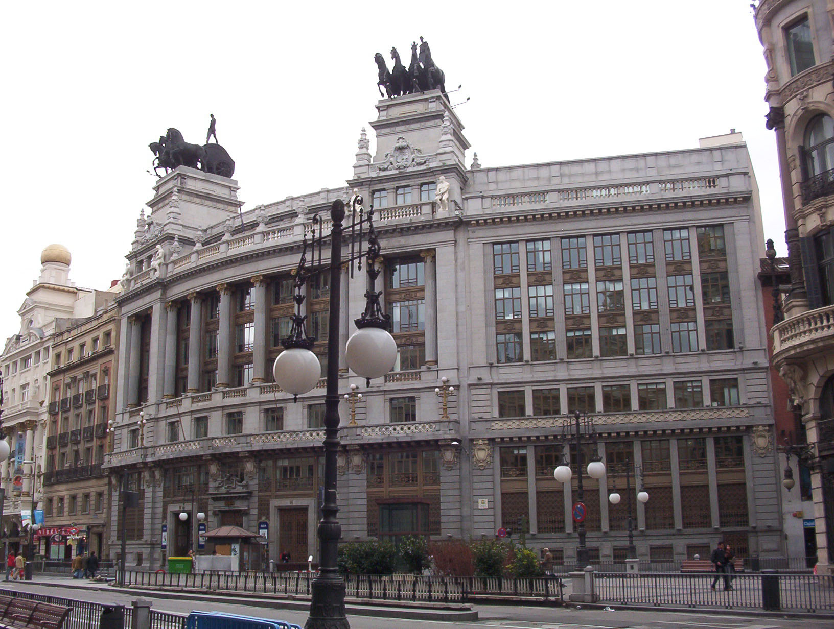 Façade of the Bank of Bilbao building at 16 Calle de Alcalá (street) in Madrid (Spain). Projected in 1919 by architect Ricardo Bastida y Bilbao (1879–1953) and built from 1920 to 1923.